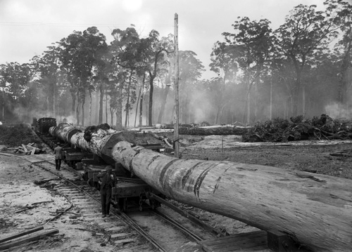 Train loaded with karri logs in Deanmill, Western Australia